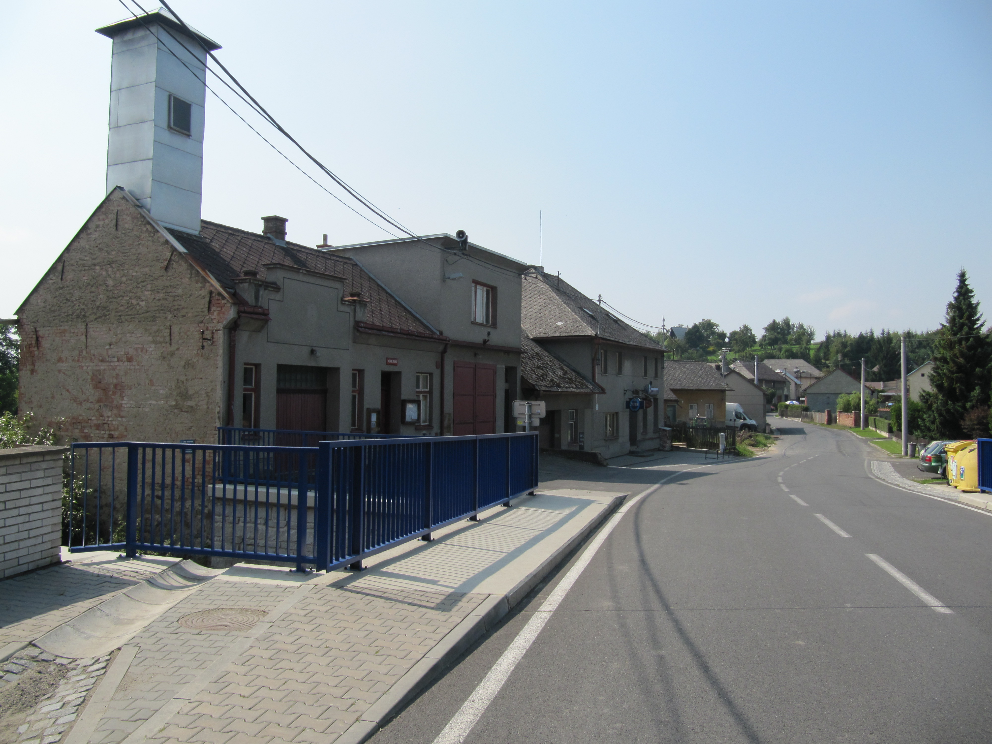 Lazníky, Czech Republic, Přerov District. Firehouse. This photograph was taken within the scope of the third year of the 'Czech Municipalities Photographs' grant.